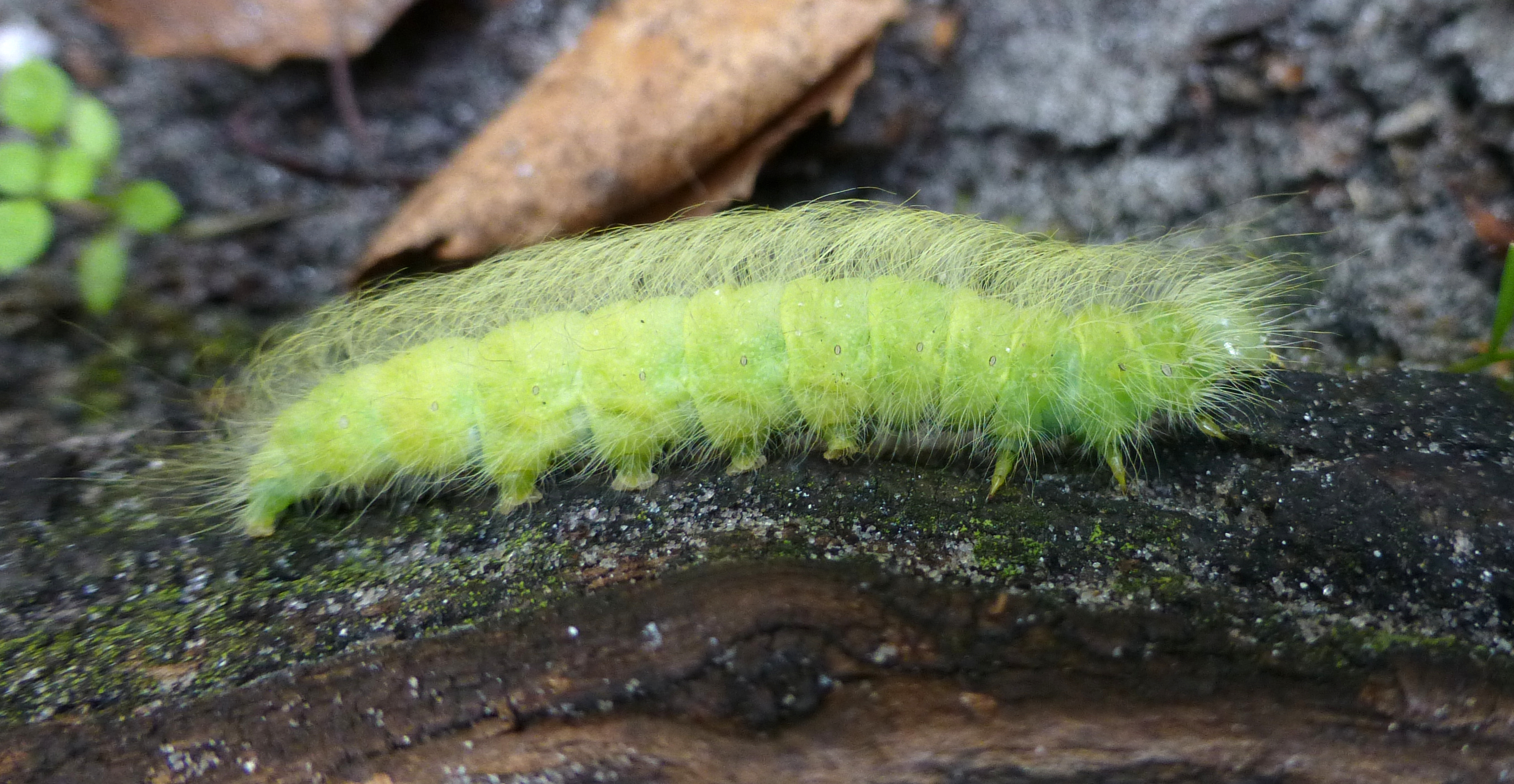 Acronicta leporina